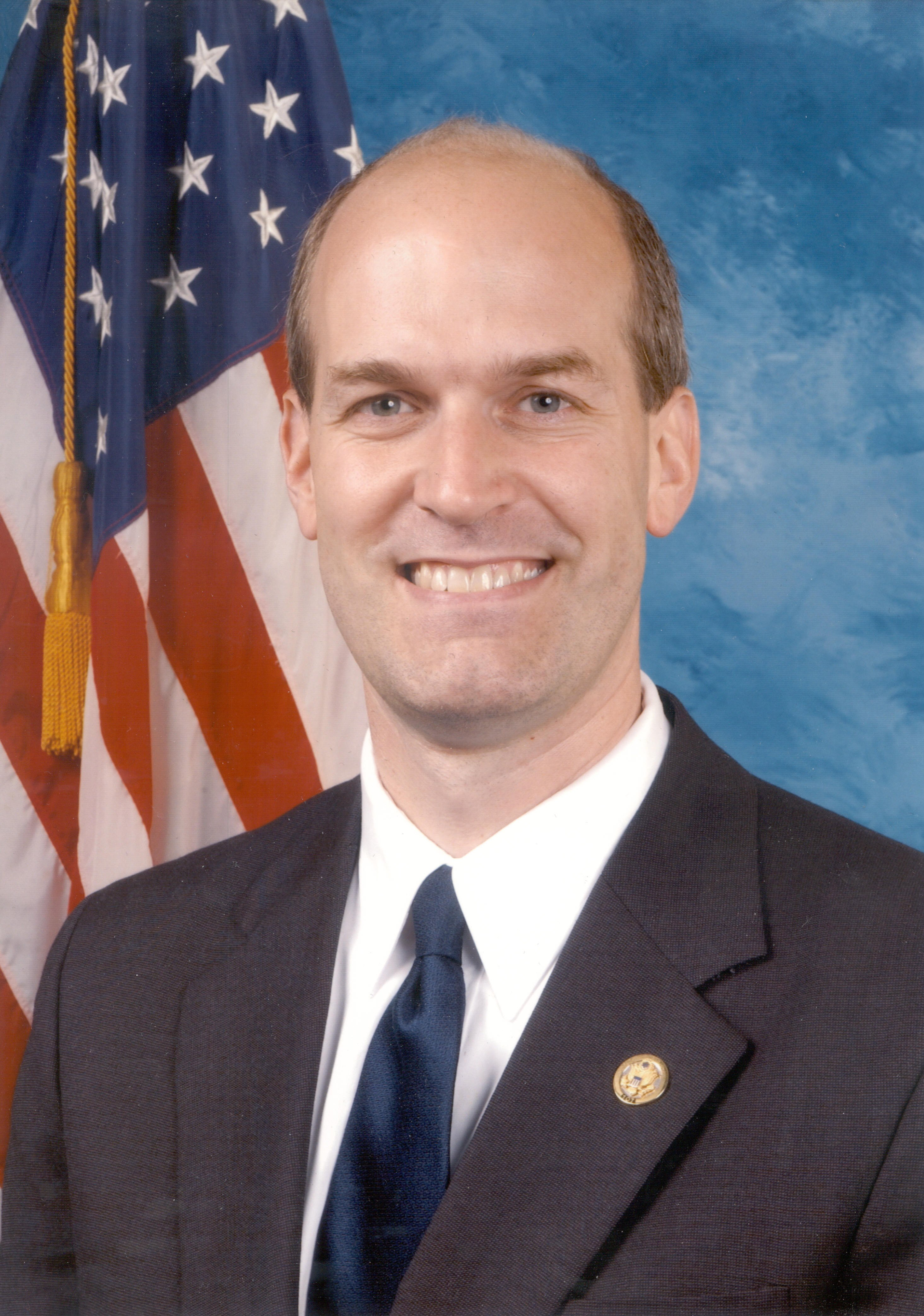 Rick Larsen, U.S. Congressman (D-Washington, 2001-present).